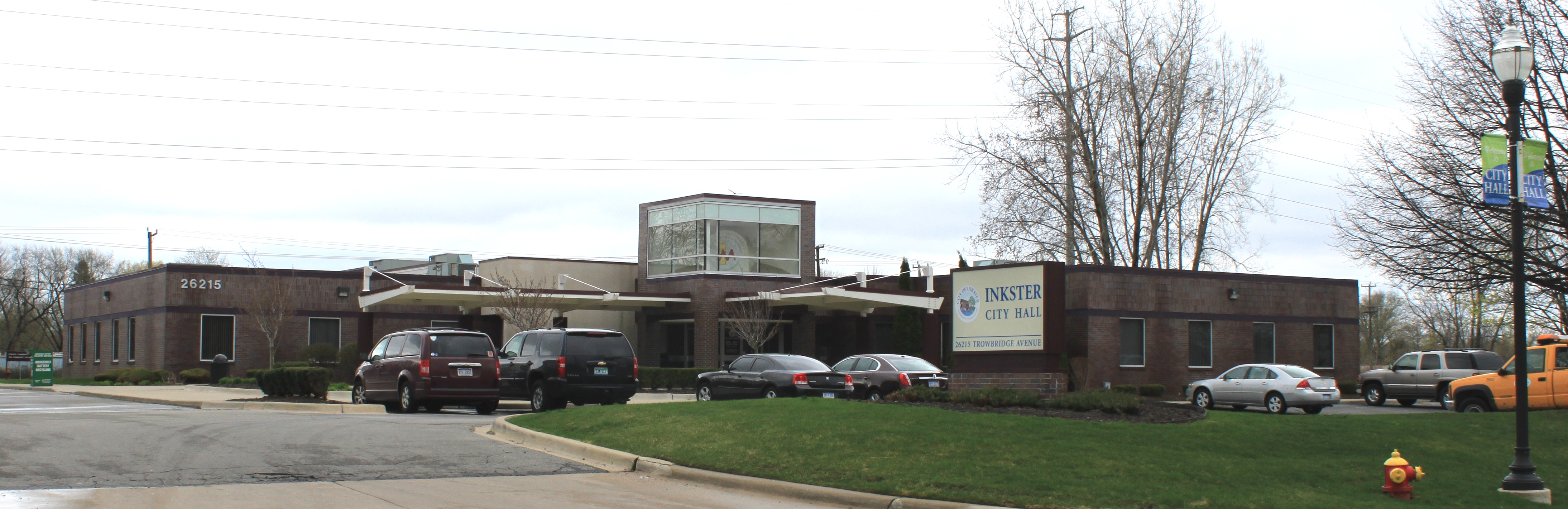 Inkster Michigan City Hall, 26215 Towbridge Avenue.